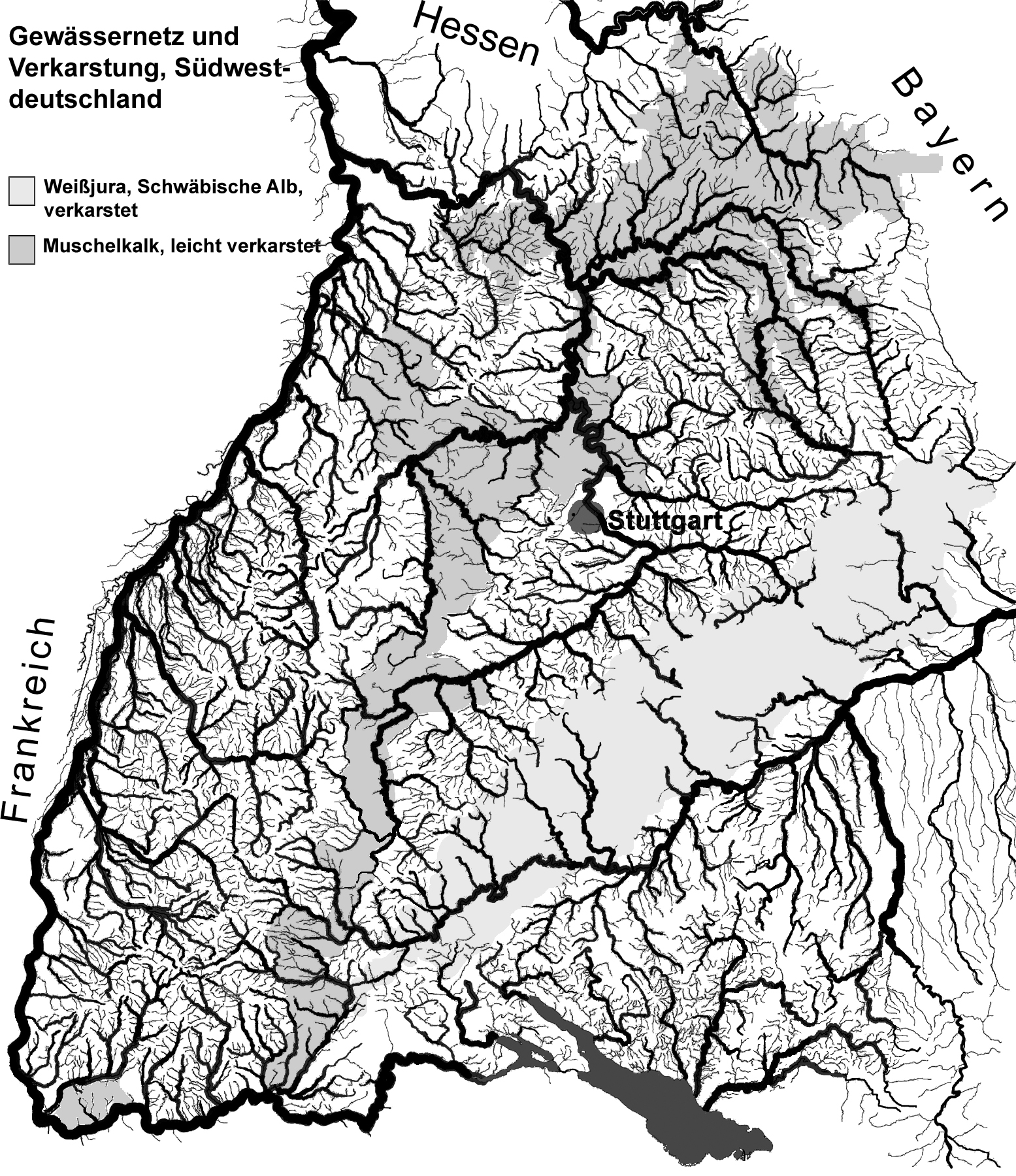 Network of watercourses of Baden-Württemberg. The karstification of the Swabian Alb is well distinguishable. The triassic Muschelkalk, a lithostratigraphic unit in Western and Central Europe is far less striking.